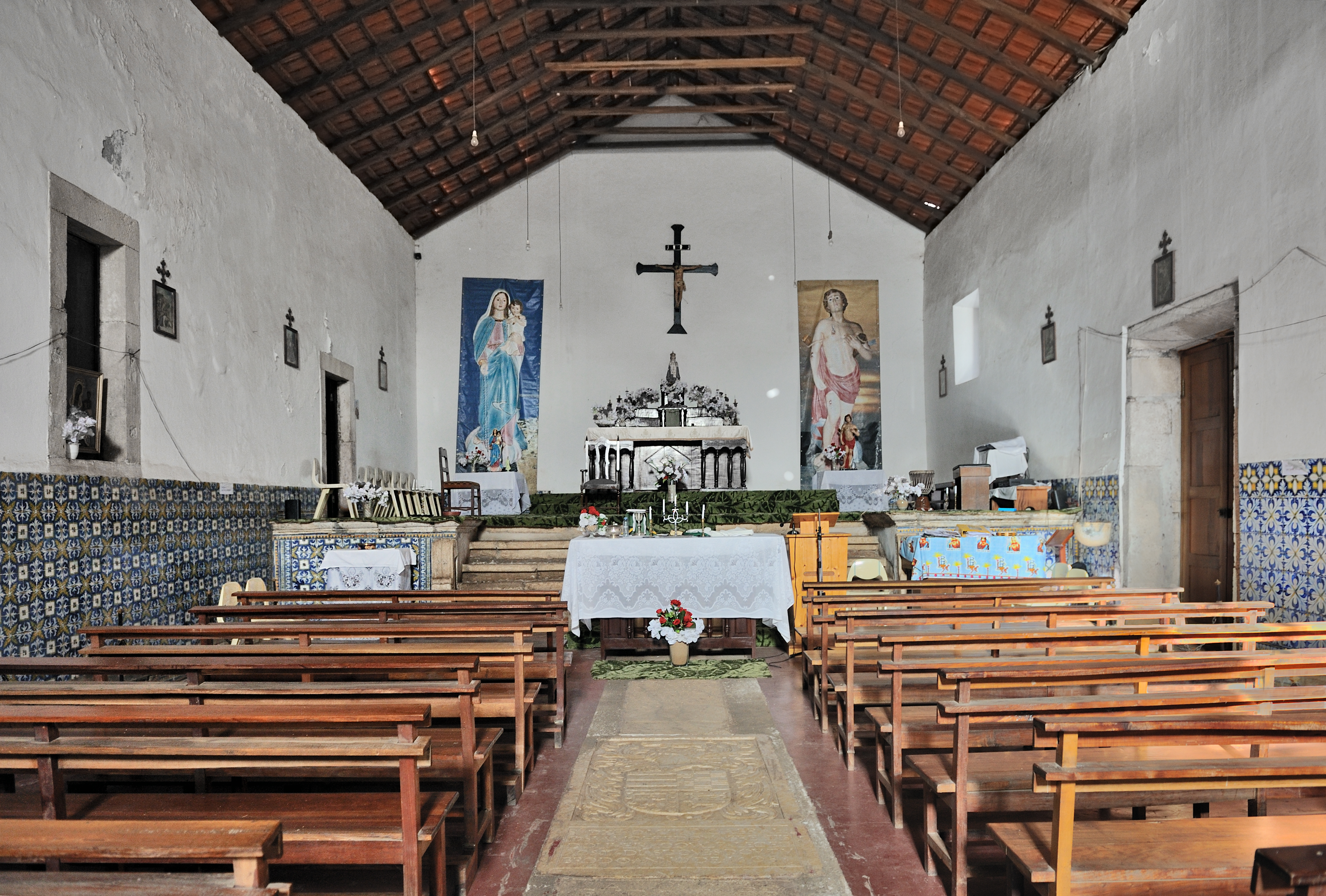 Cape Verde, Cidade Velha: interior of the church Nossa Senhora do Rosario, erected in 1495.